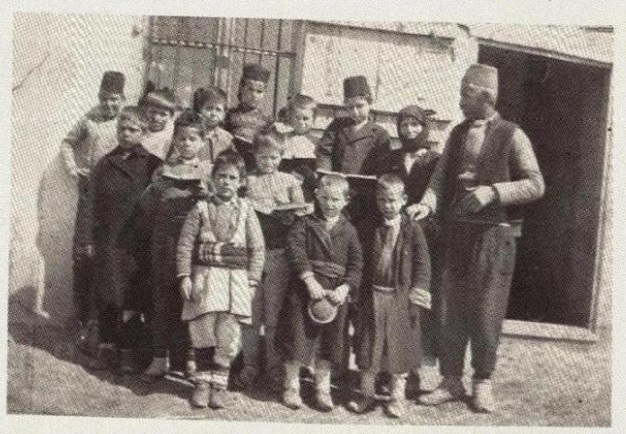 First Students in the American Farm School 1903